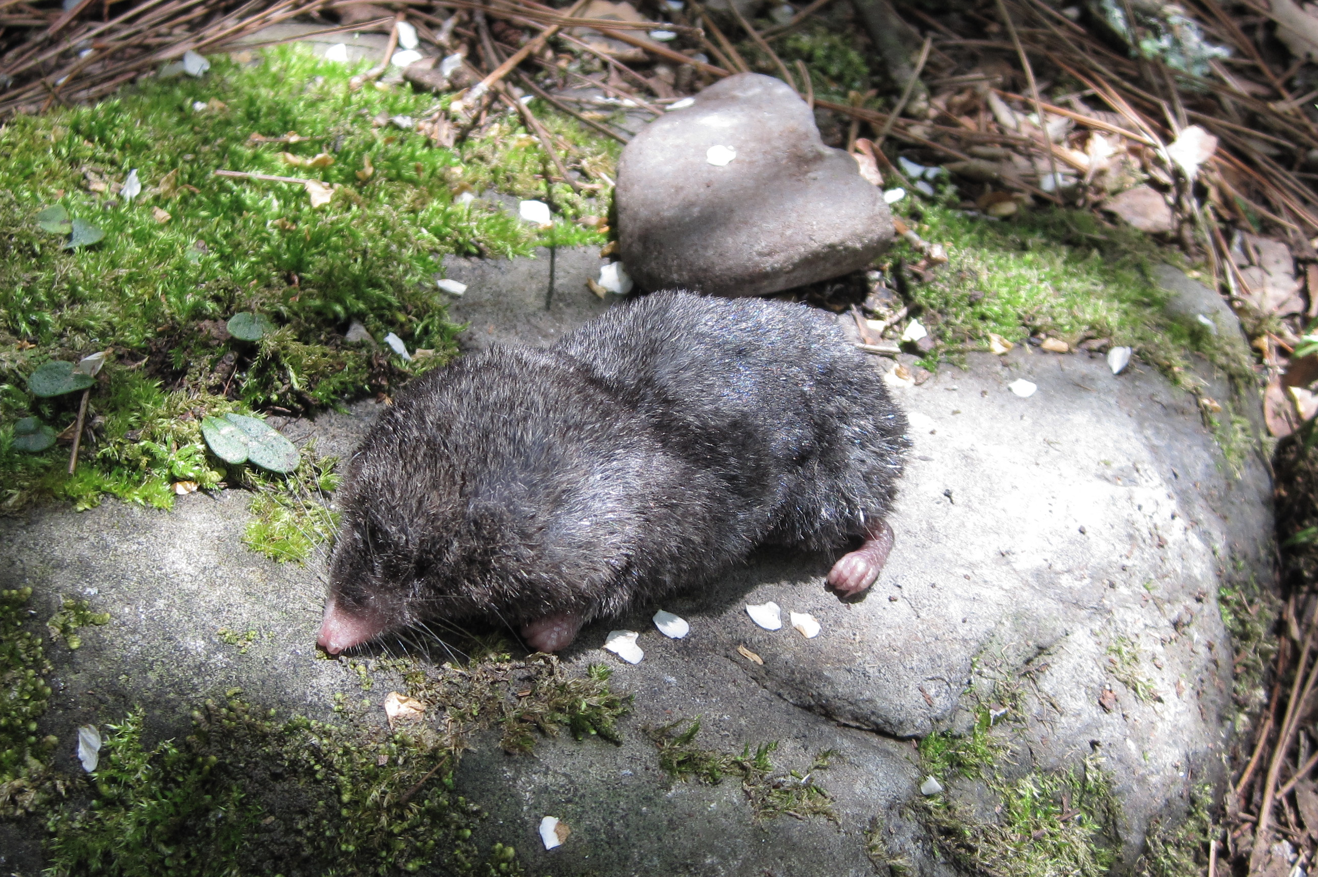 Taiwanese mole shrew (Anourosorex yamashinai) - this is a photo of an adult captured in central Taiwan (121º18’ E, 24º21’ N; elevation c. 1,800-m).